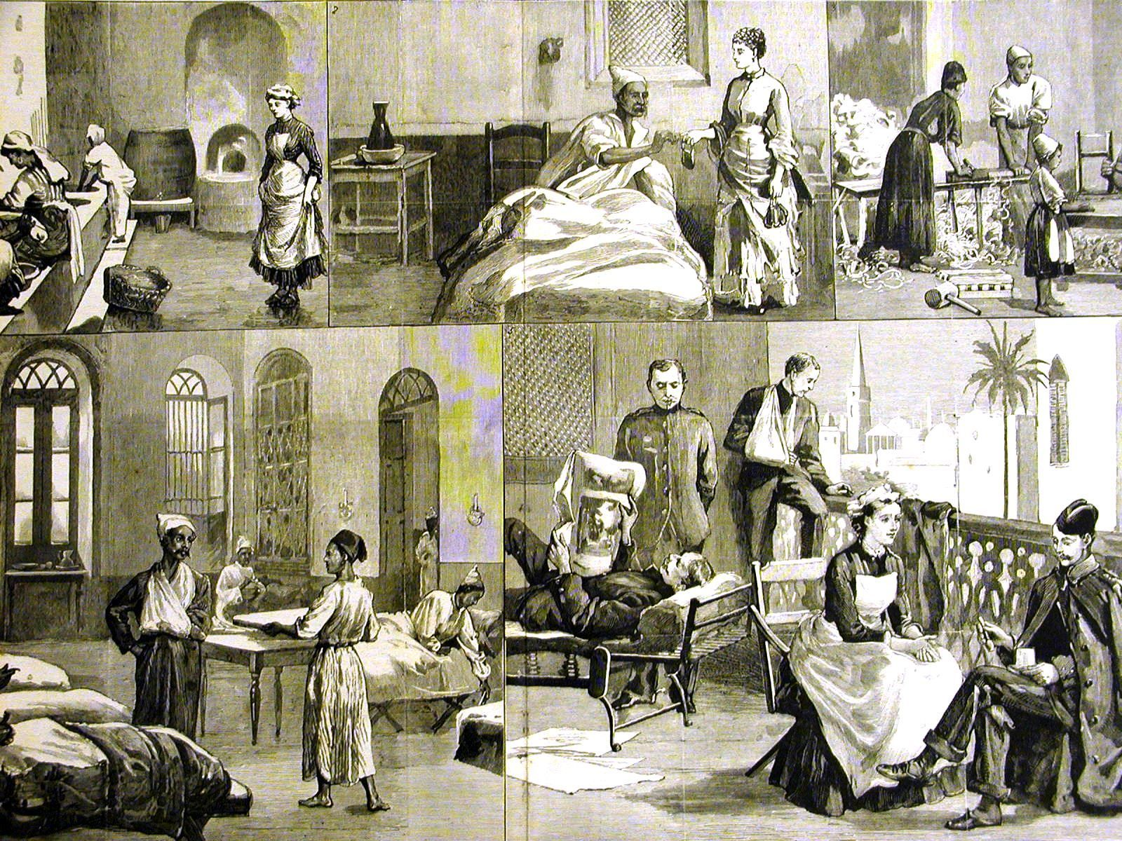 Lady Strangfords Hospital Queen Victoria's HospitalCairo 1882